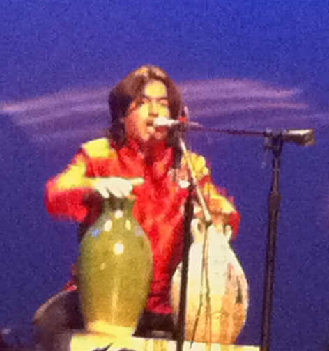 Parvaz Homay, Homay & Mastan 2010 US/Canada Tour, Houston, TX